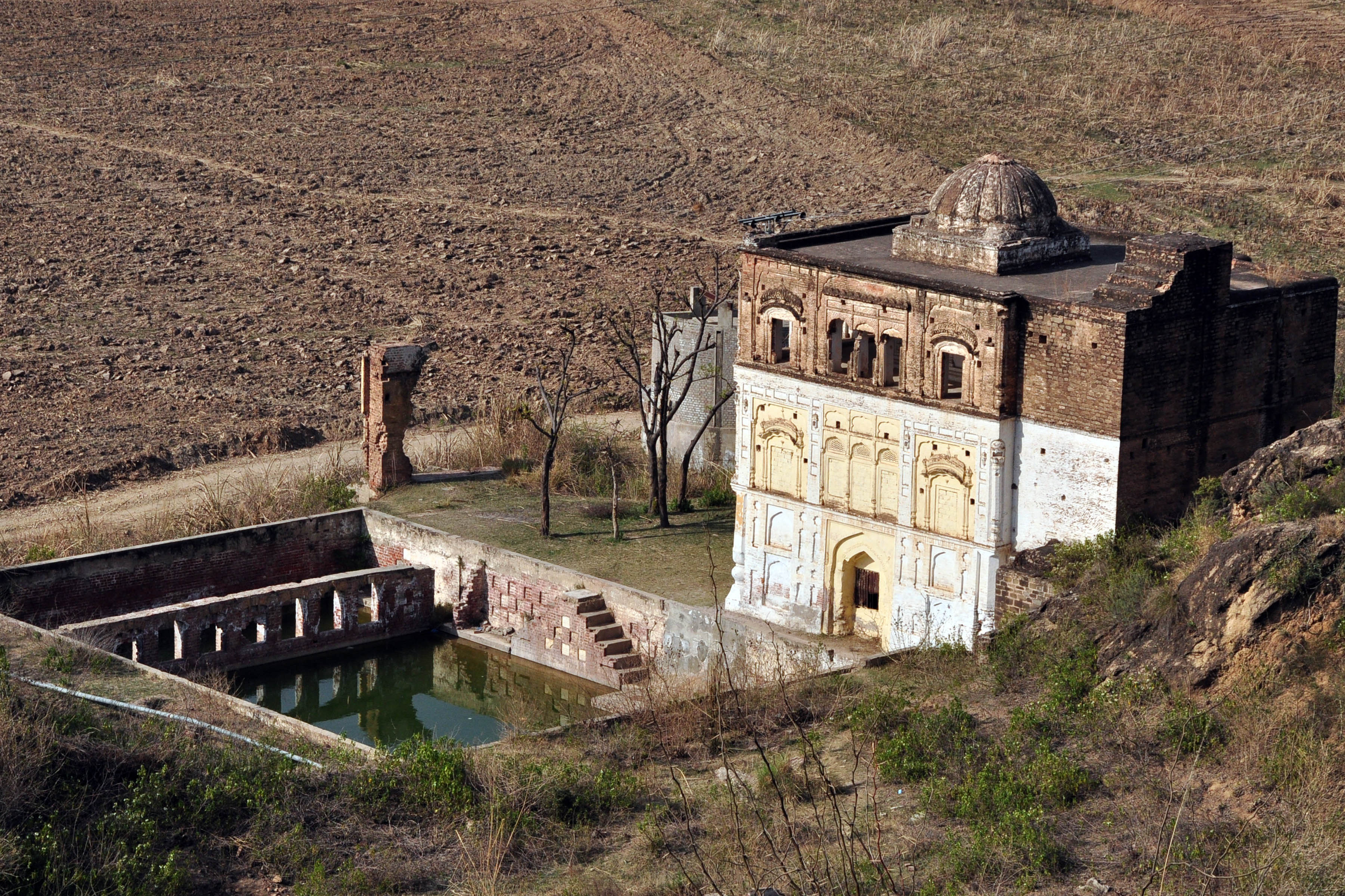 Rohtas Fort This is a photo of a monument in Pakistan identified as the PB-30